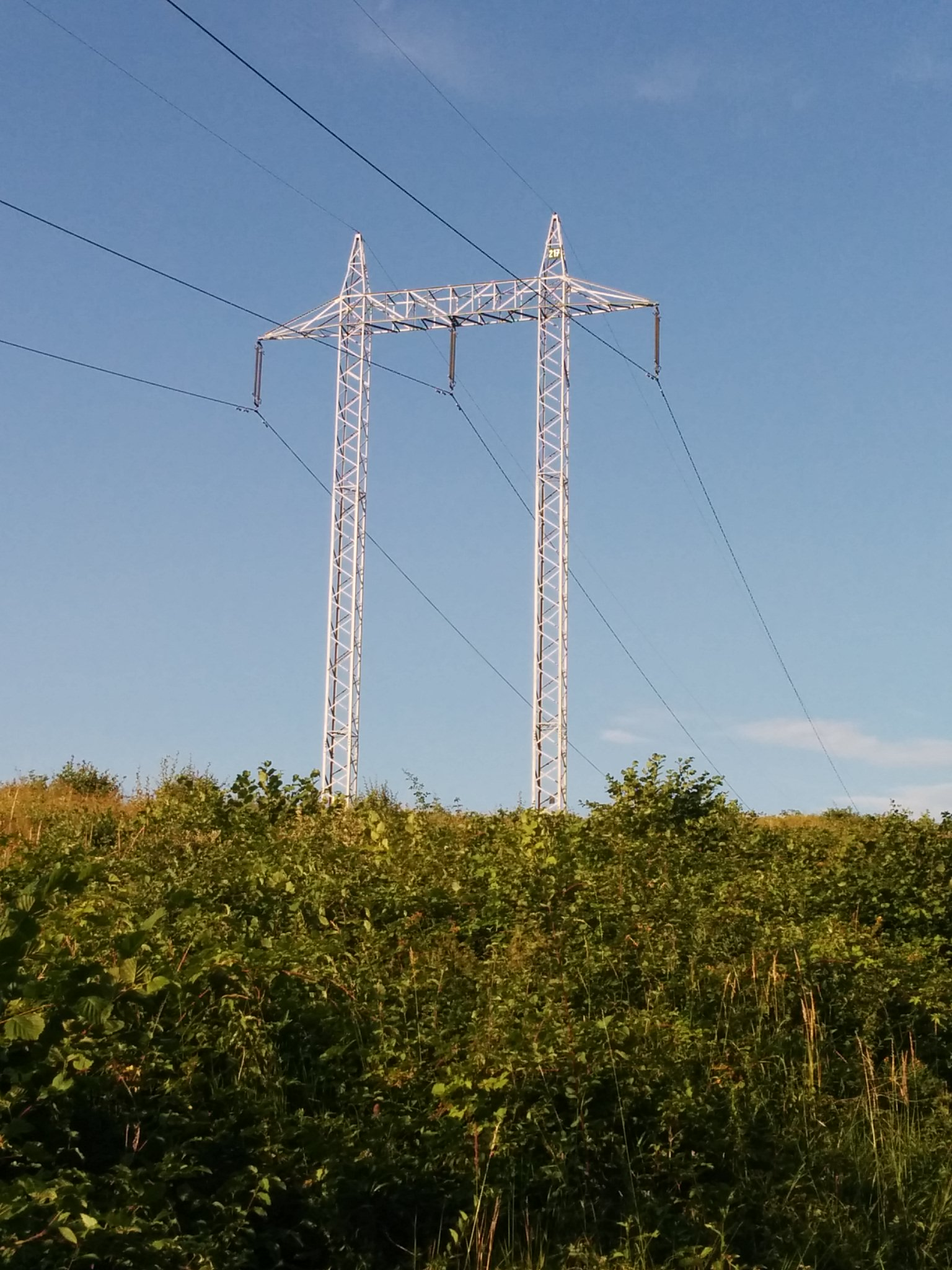 Line V274 of Slovenská elektrizačná prenosová sústava, 220 kV voltage, in Brodzany, near Partizánske, Slovakia in July 2019.